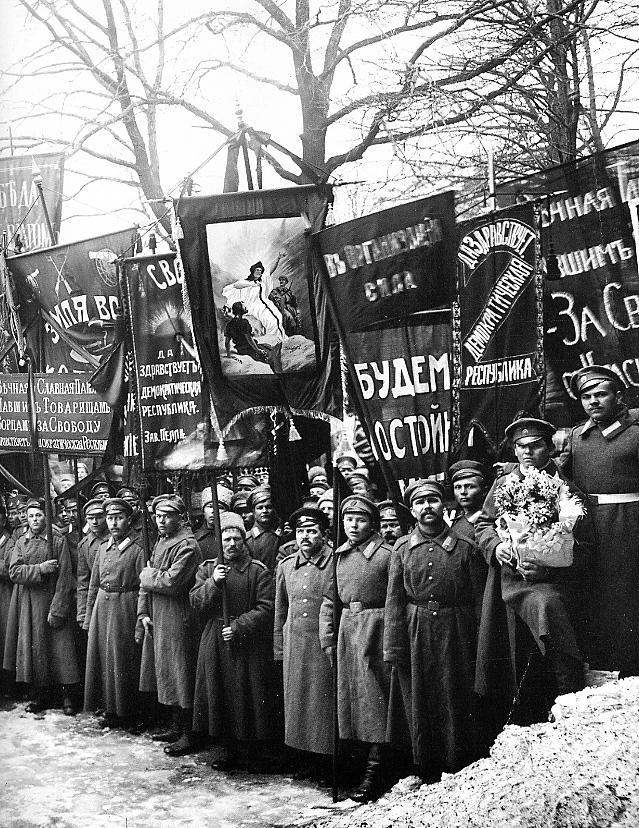 Funeral on Mars Field, Petrograd, of those who died fighting the government in the February Revolution, March 23rd 1917.